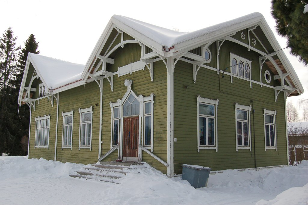 The first of the two railway stations in Kuivaniemi, Finland. This building was built in 1904, when the Oulu–Kemi railway line was still aligned through what is today the center of Kuivaniemi village. The new line runs past the village. Today this building is a private residence.